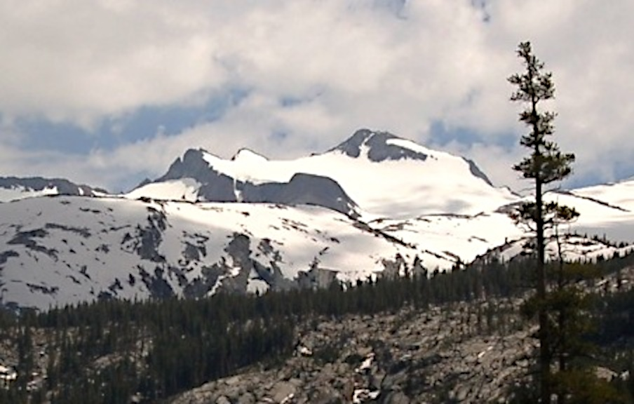 Mount Lyell, Yosemite National Park, California, United States